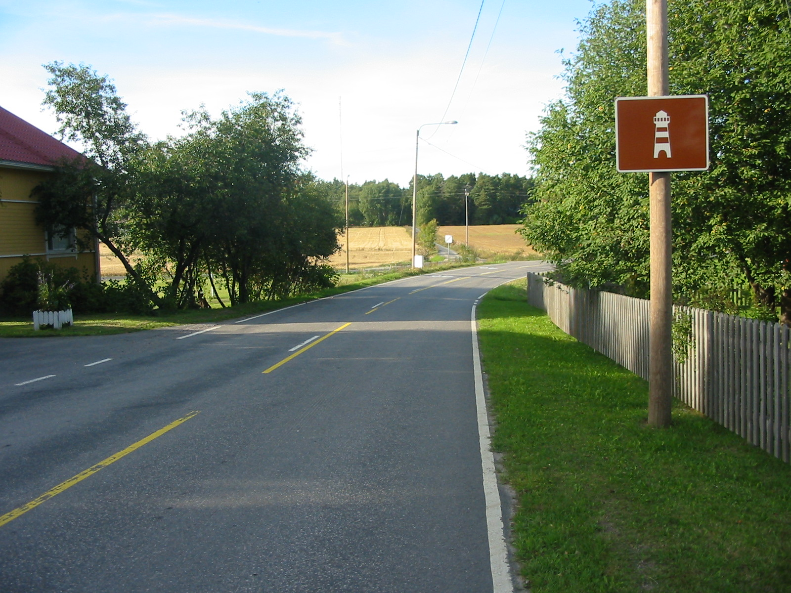 Pohjanmaan rantatie (National road 2171) in Irjanne, Eurajoki, Finland.